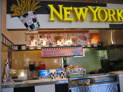 New York Fries store.